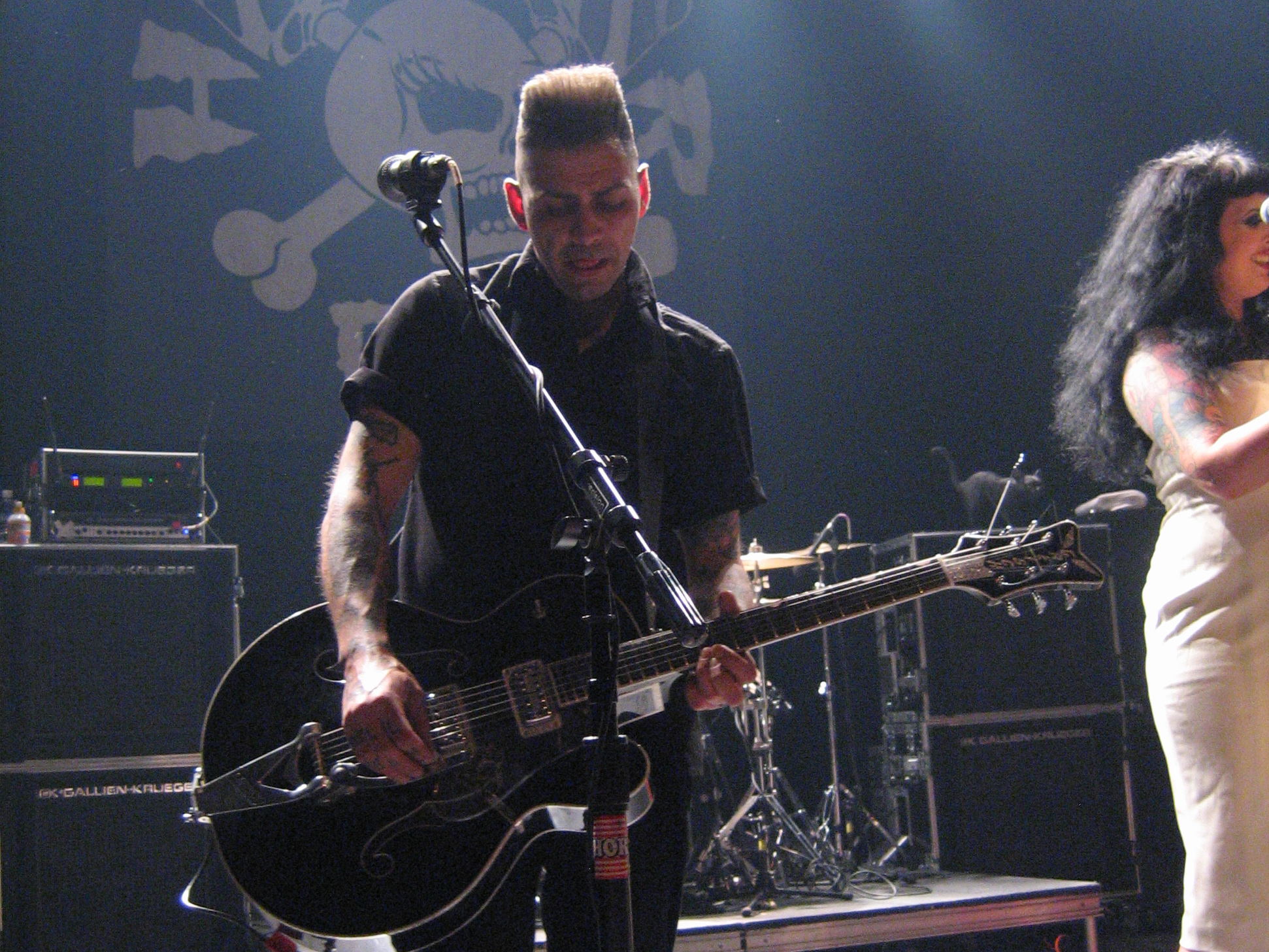 Kim Nekroman with HorrorPops